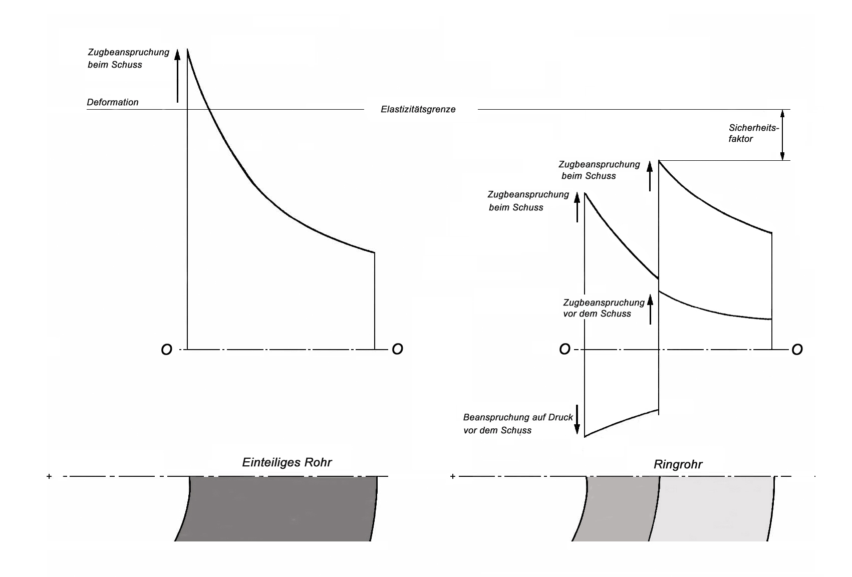 Tangential stress in built-up gun